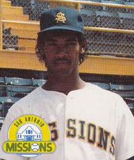 Professional baseball player Ramon Martinez